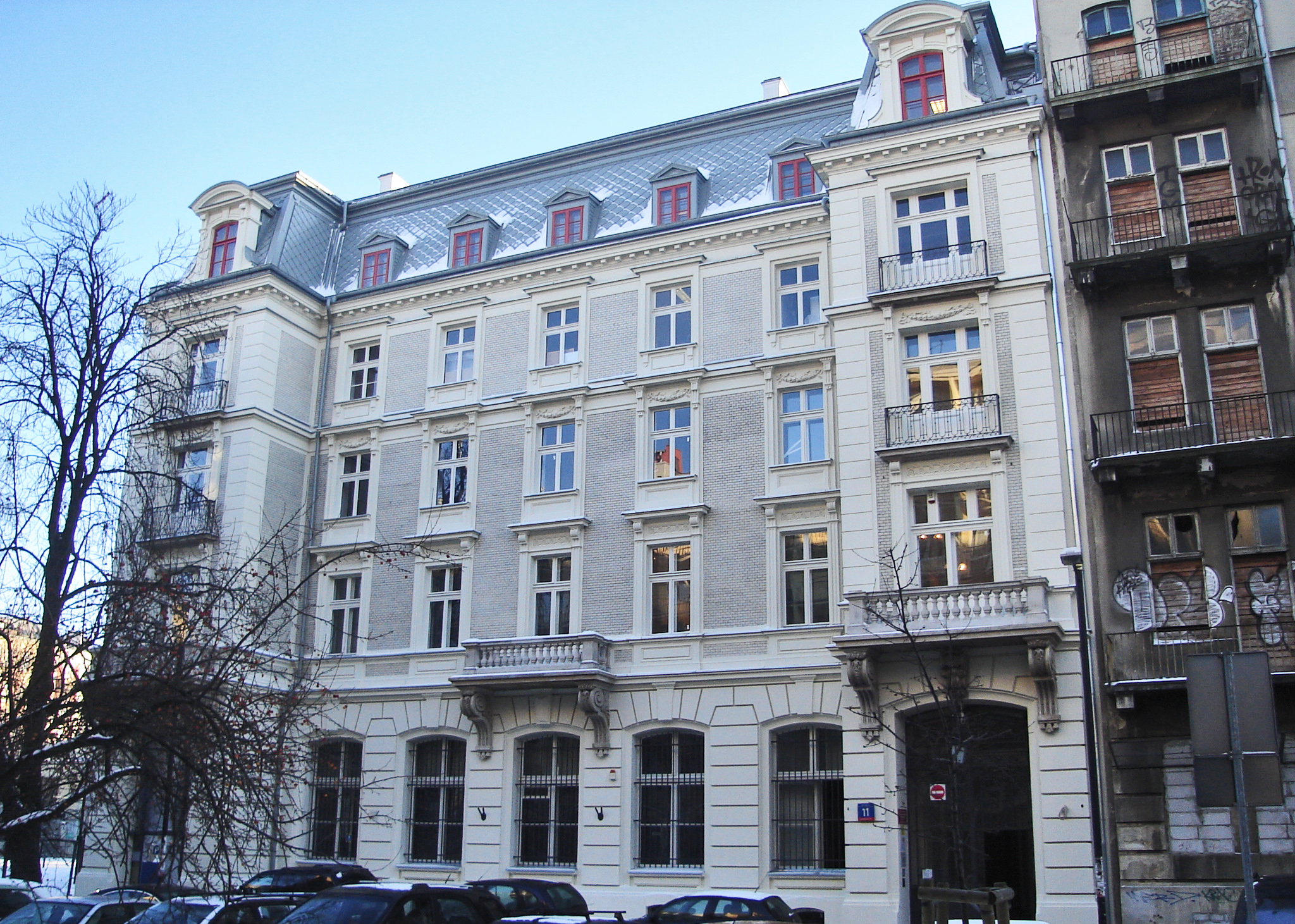 House Foksal 11 St. in Warsaw, Poland